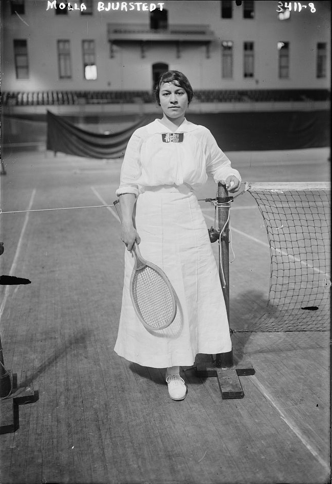 Norwegian, later US-American tennis player Molla Mallory (née Bjursted) who won the Women's National Indoor Tennis Tournament at the Seventh Regiment Armory (Park Avenue Armory), New York City.